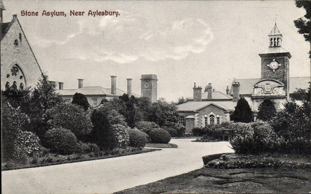 Old postcard of Stone Asylum, near Aylesbury